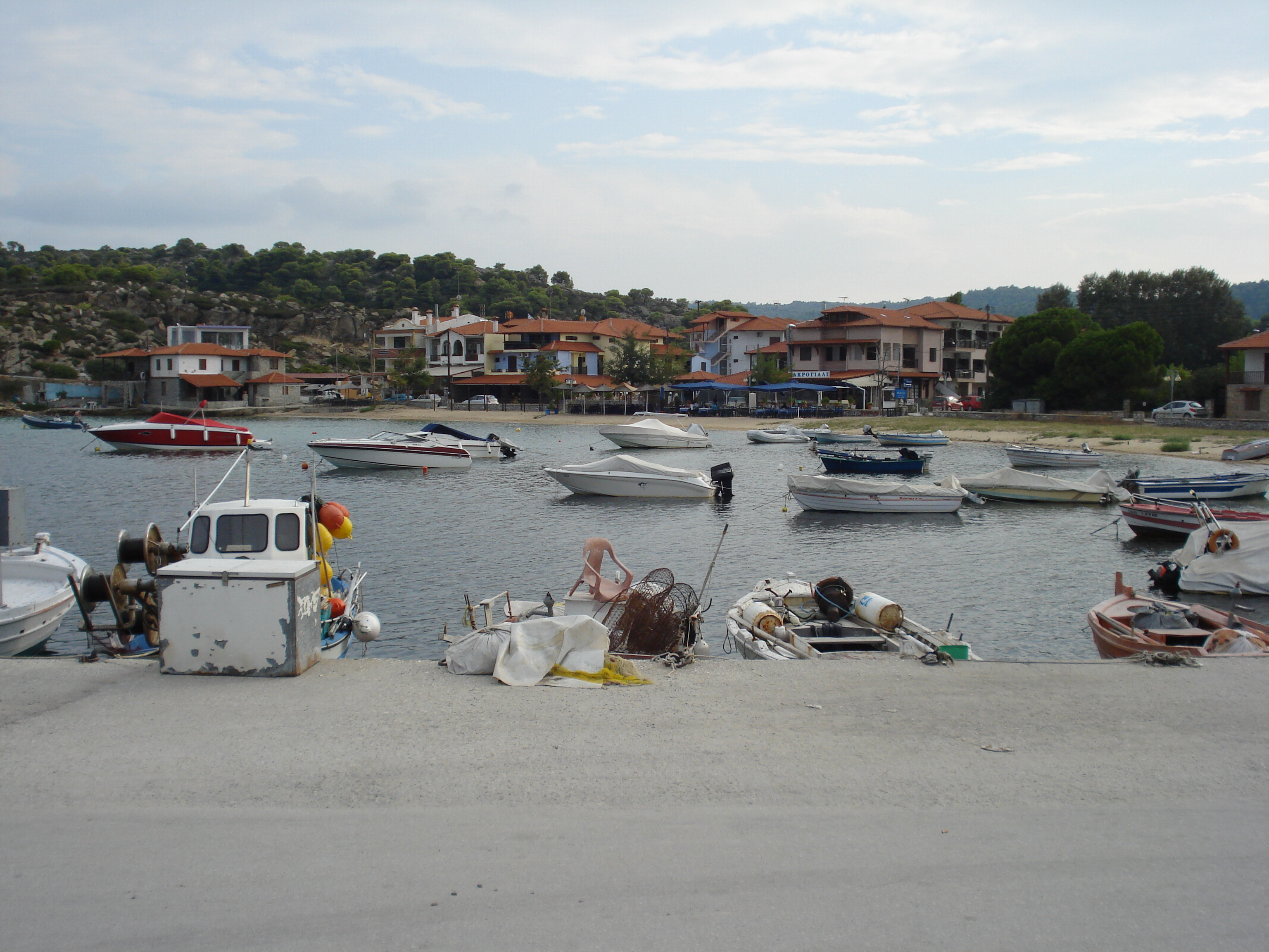 Ormos Panagias